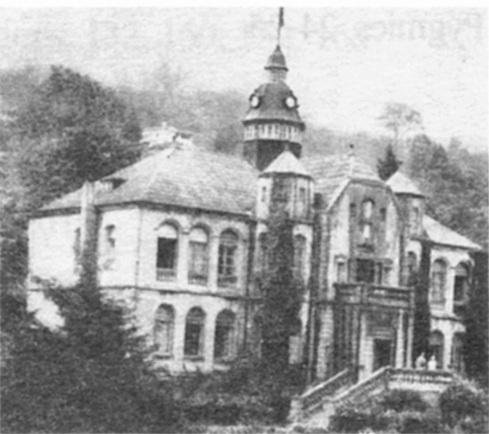 The schloss (palace) of Jesko von Puttkamer, governor of German Kamerun. It was constructed in 1900 after Wilhelminian Hunting Lodge in Brandenburg, Germany.